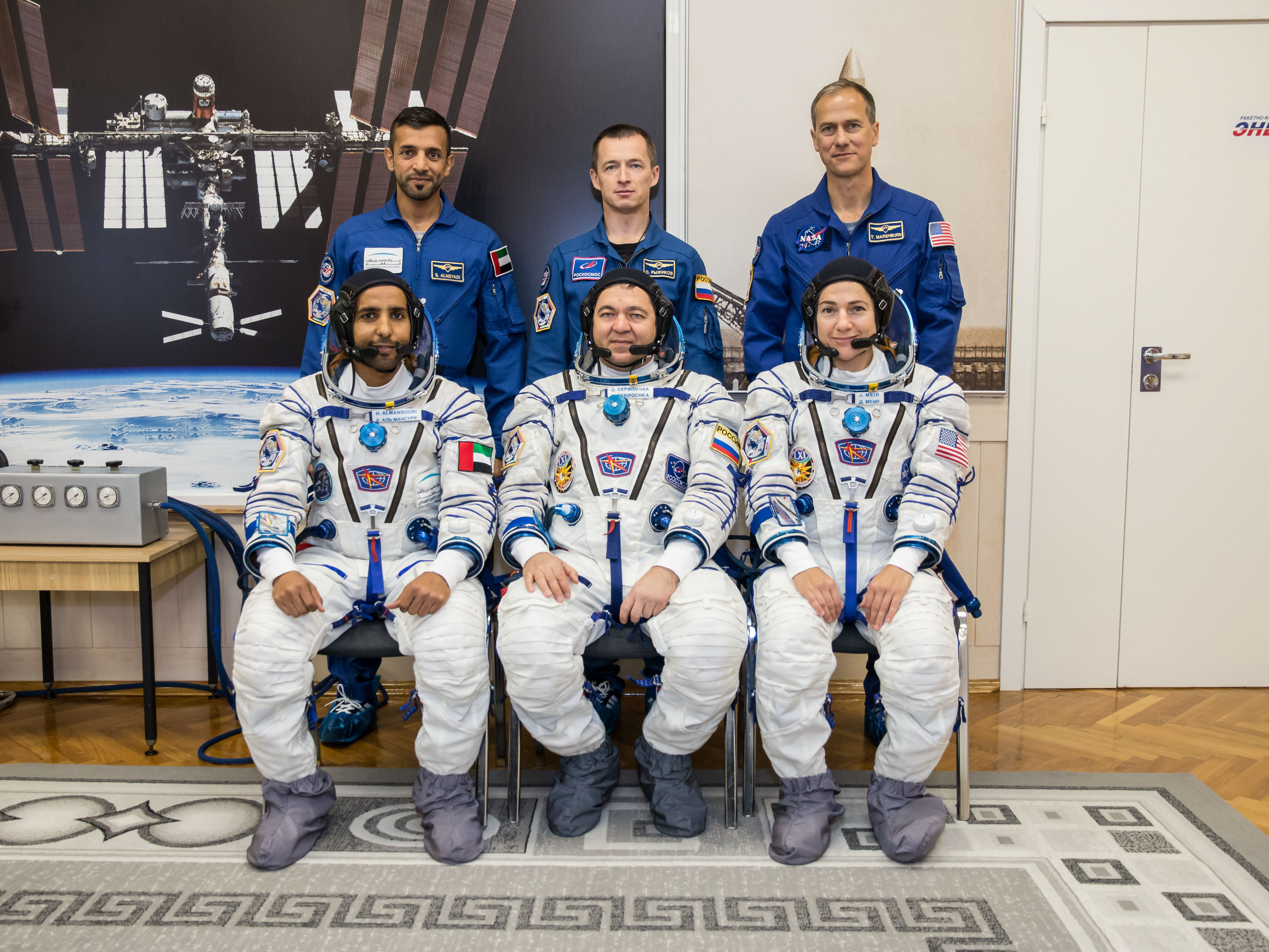 In the Integration Building at the Baikonur Cosmodrome in Kazakhstan, the prime and backup crewmembers for the next launch to the International Space Station pose for pictures Sept. 11. In the front row from left to right are the prime crewmembers, spaceflight participant Hazzaa Ali Almansoori of the United Arab Emirates and Expedition 61 crewmembers Oleg Skripochka of Roscosmos and Jessica Meir of NASA. In the back row are their backups. From left to right are spaceflight participant Sultan Al-Neyadi of the United Arab Emirates, Sergey Ryzhikov of Roscosmos and Tom Marshburn of NASA. Almansoori, Skripochka and Meir will launch Sept. 25 on the Soyuz MS-15 spacecraft from the Baikonur Cosmodrome for a mission on the International Space Station.